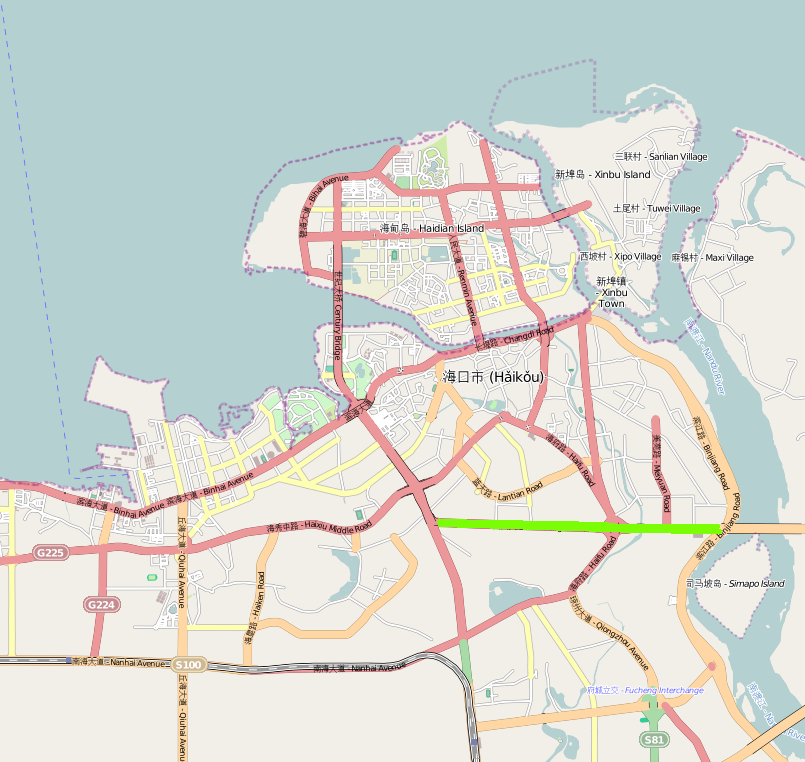 Map showing Guoxing Avenue within Haikou, Hainan, China This map of Haikou, Hainan, China was created from OpenStreetMap project data, collected by the community. This map may be incomplete, and may contain errors. Don't rely solely on it for navigation.